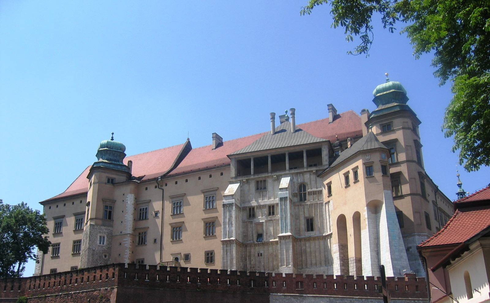 Wawel Castle, Krakow, Poland